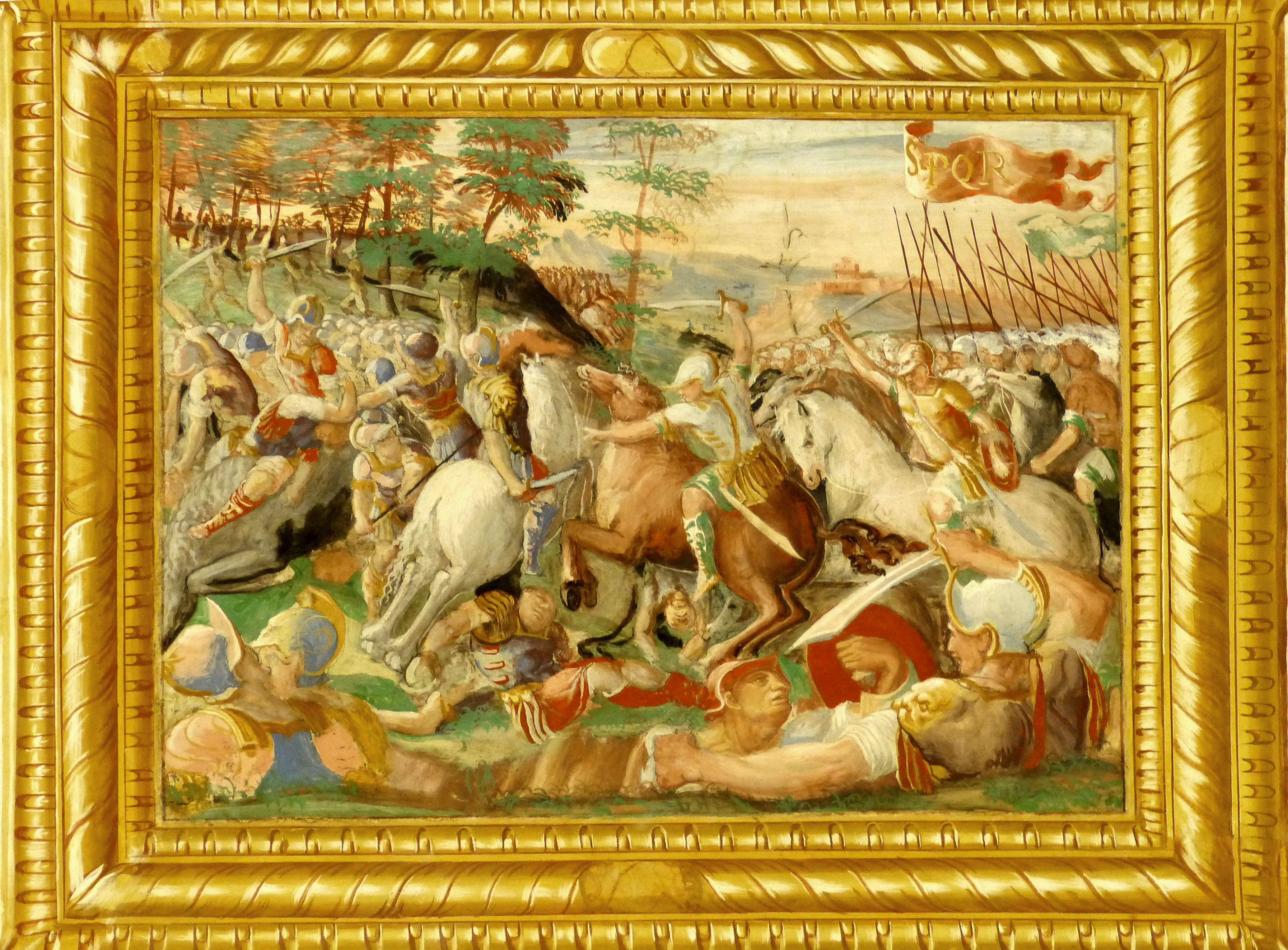 Castiglione del Lago ( Umbria ). Corgna palace (1563 ) - Aparment of Ascanio II: Fresco ( 1575 ) showing the Battle of Lake Trasimene by an unknown artist ( detail ).